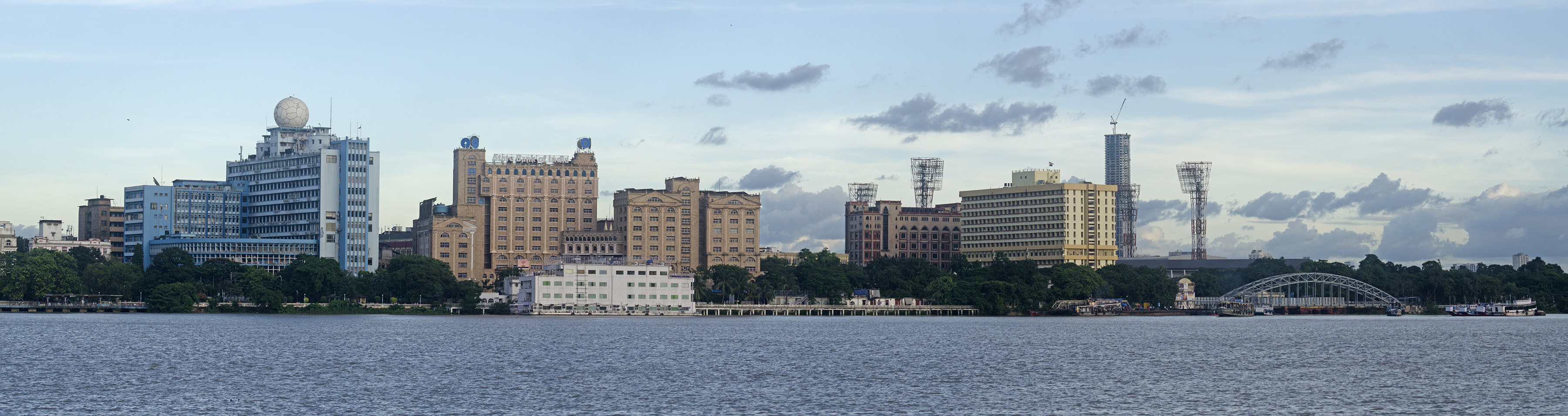 Panoramic view of Kolkata from Howrah